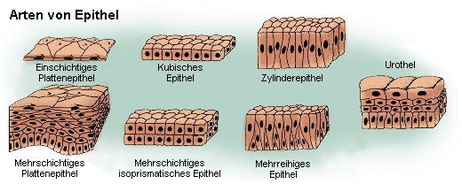 The different kinds of epithelia